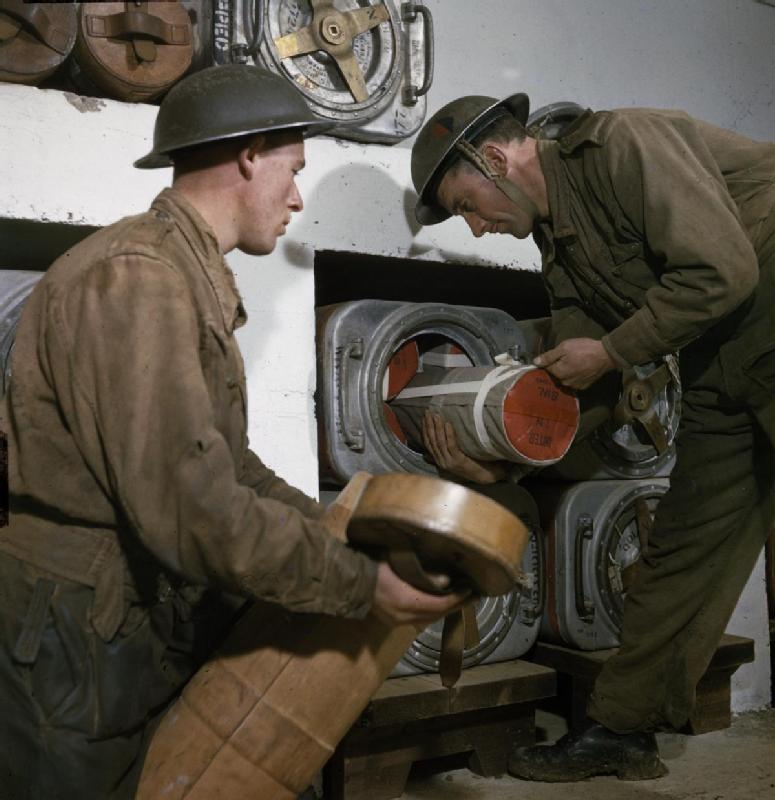 Men of 428 Battery, Coast Defence Artillery, Dover area, remove the propellant charge for an 8-inch gun from safety containers.